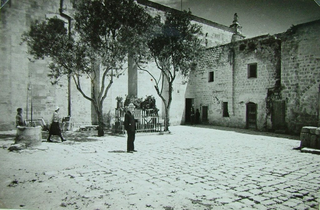 Nasaret 1930, På foto Kristian Audne.[1]